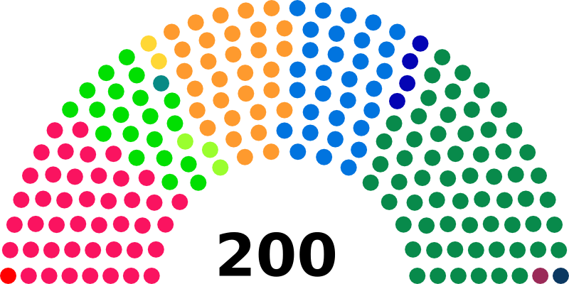 Seats diagramme of Swiss National Council (2007)